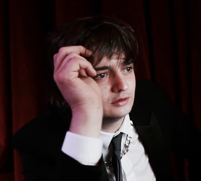 Pete Doherty giving an interview to French cultural magazine Les Inrockuptibles about the movie Confession of a Child of the Century, from French director Sylvie Verheyde, in which he plays.